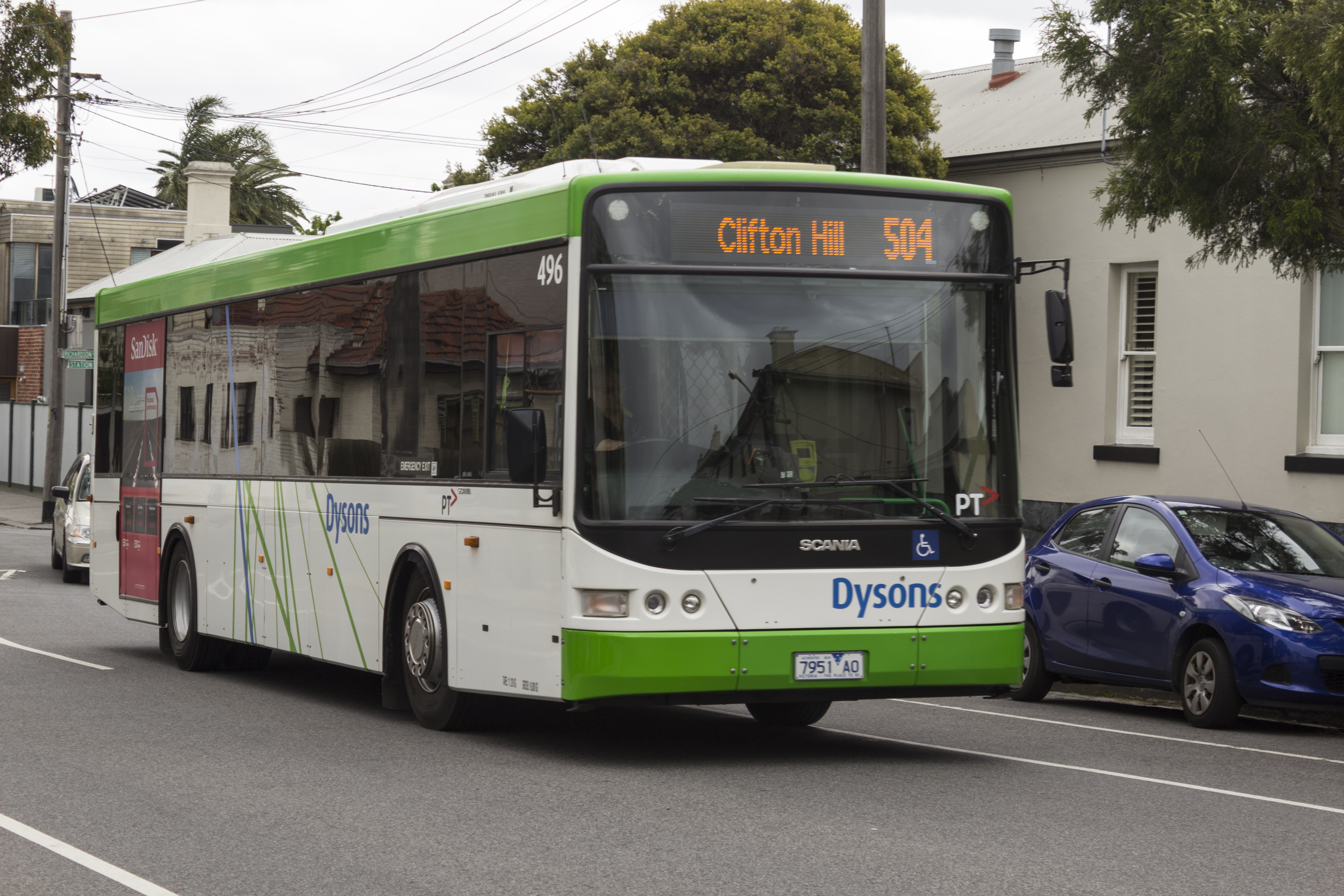 Dysons number 496 (7951AO) Scania on route 504 in Carlton North, 2013.